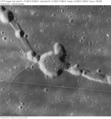 LO-IV-102H The crater Hyginus is like an elbow in the otherwise mostly straight Rima Hyginus.